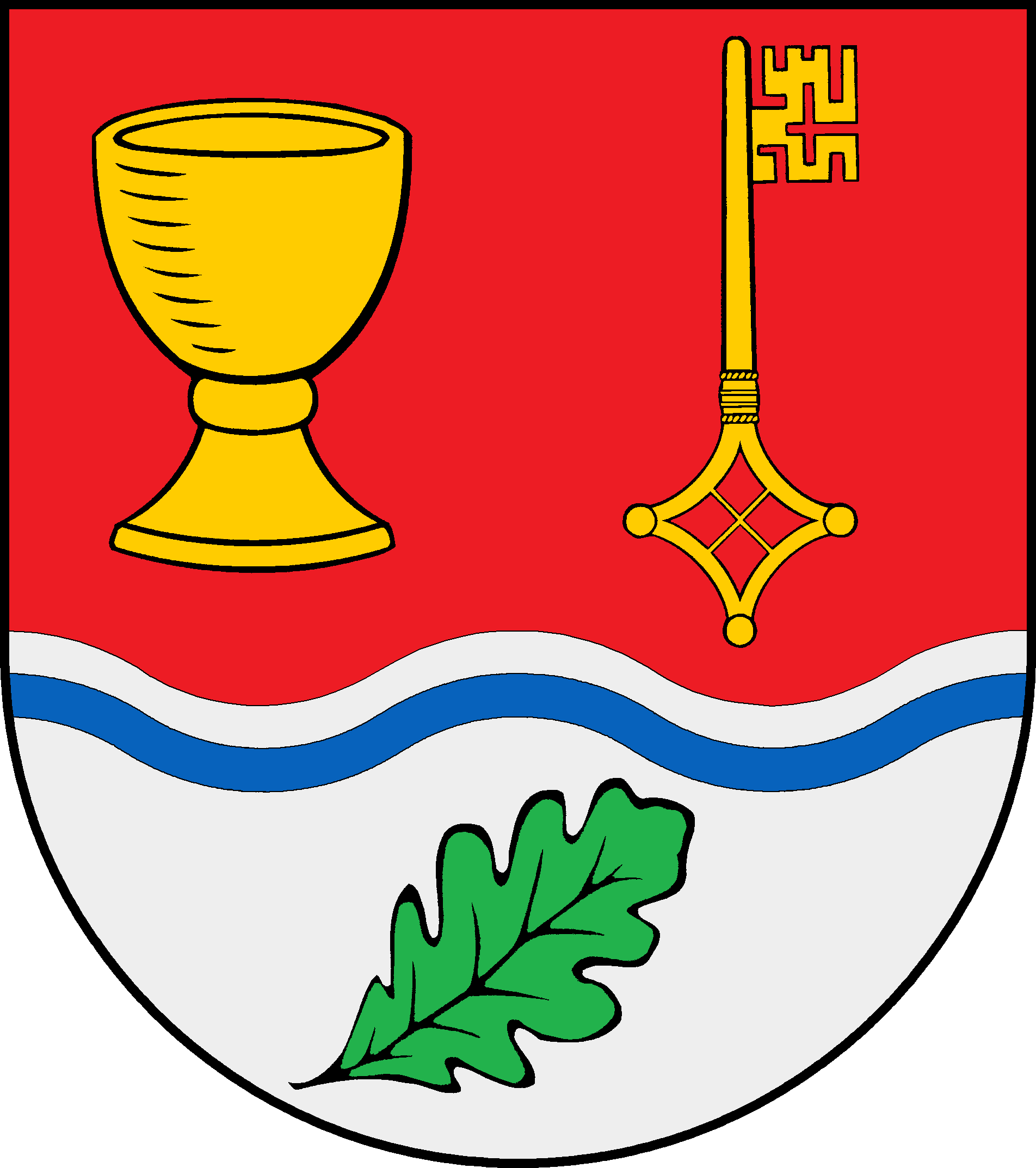 Coat of arms of the municipality Zarpen in Schleswig-Holstein, Germany.